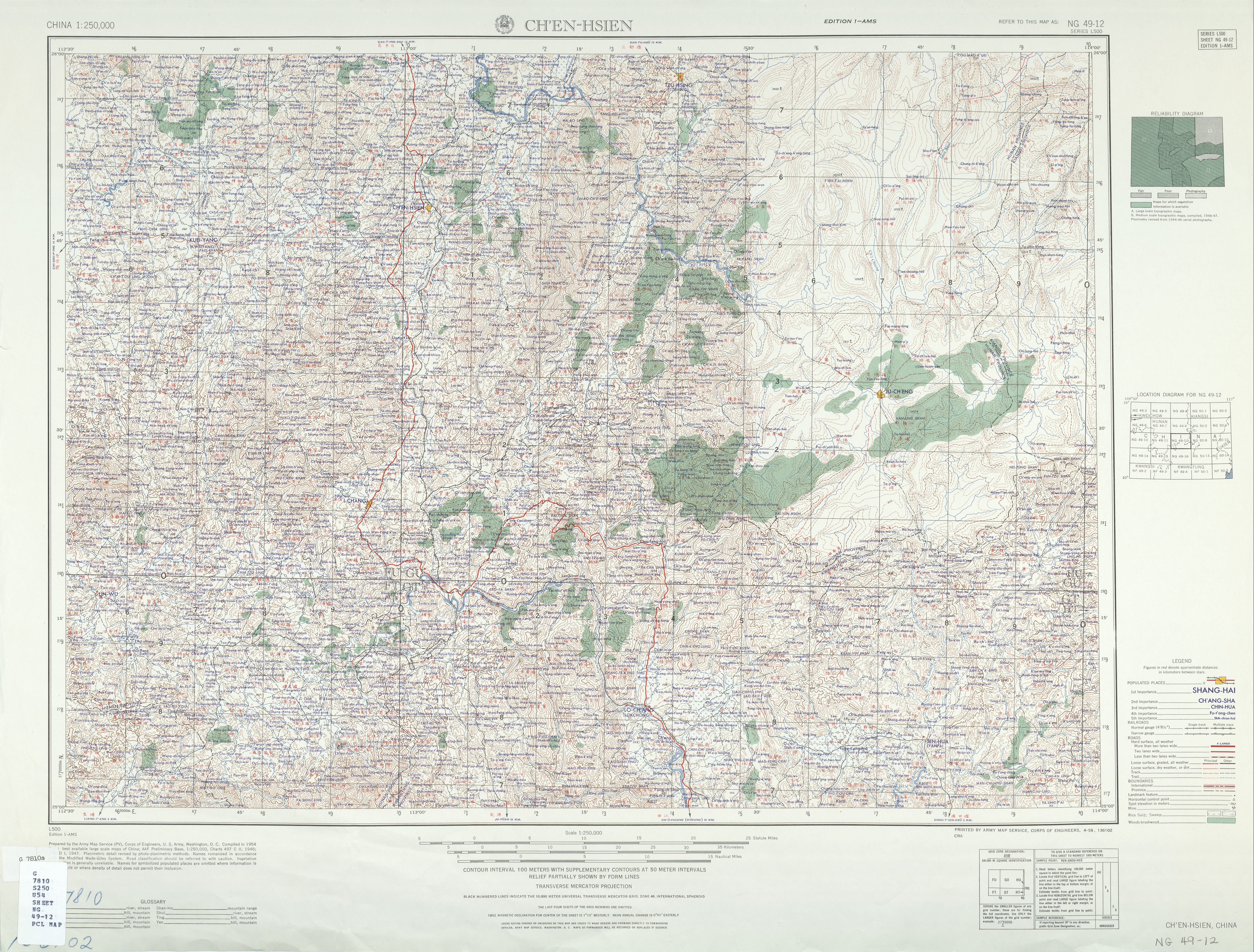 China AMS Topographic Maps